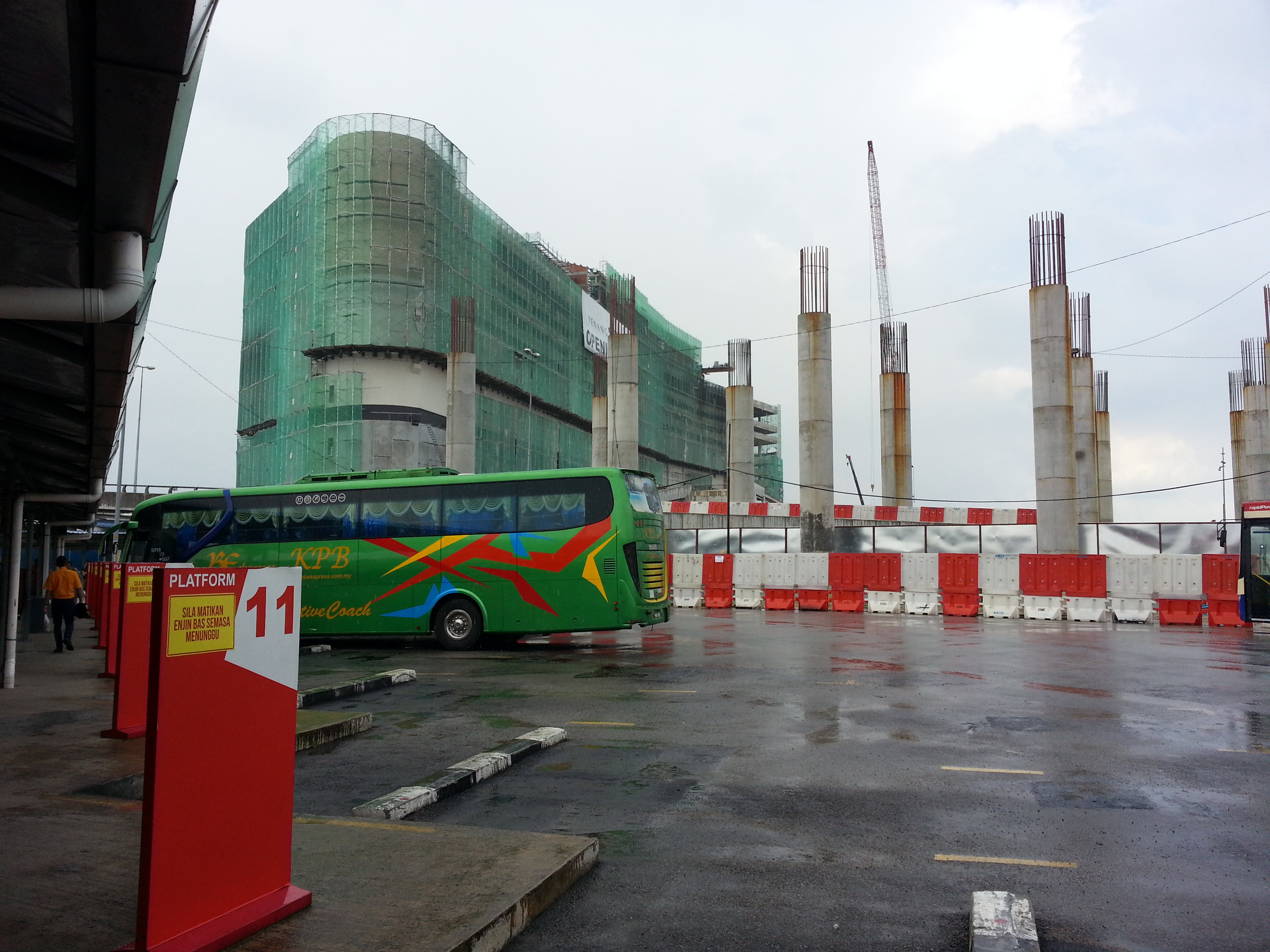 Penang Sentral in Butterworth, under construction in March 2017